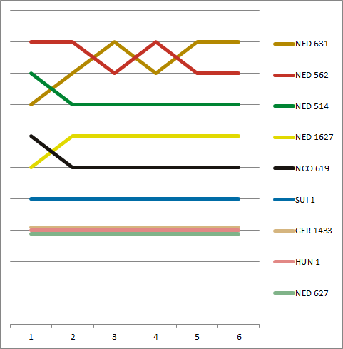 O-Jolle Positions during the 2008 Vintage